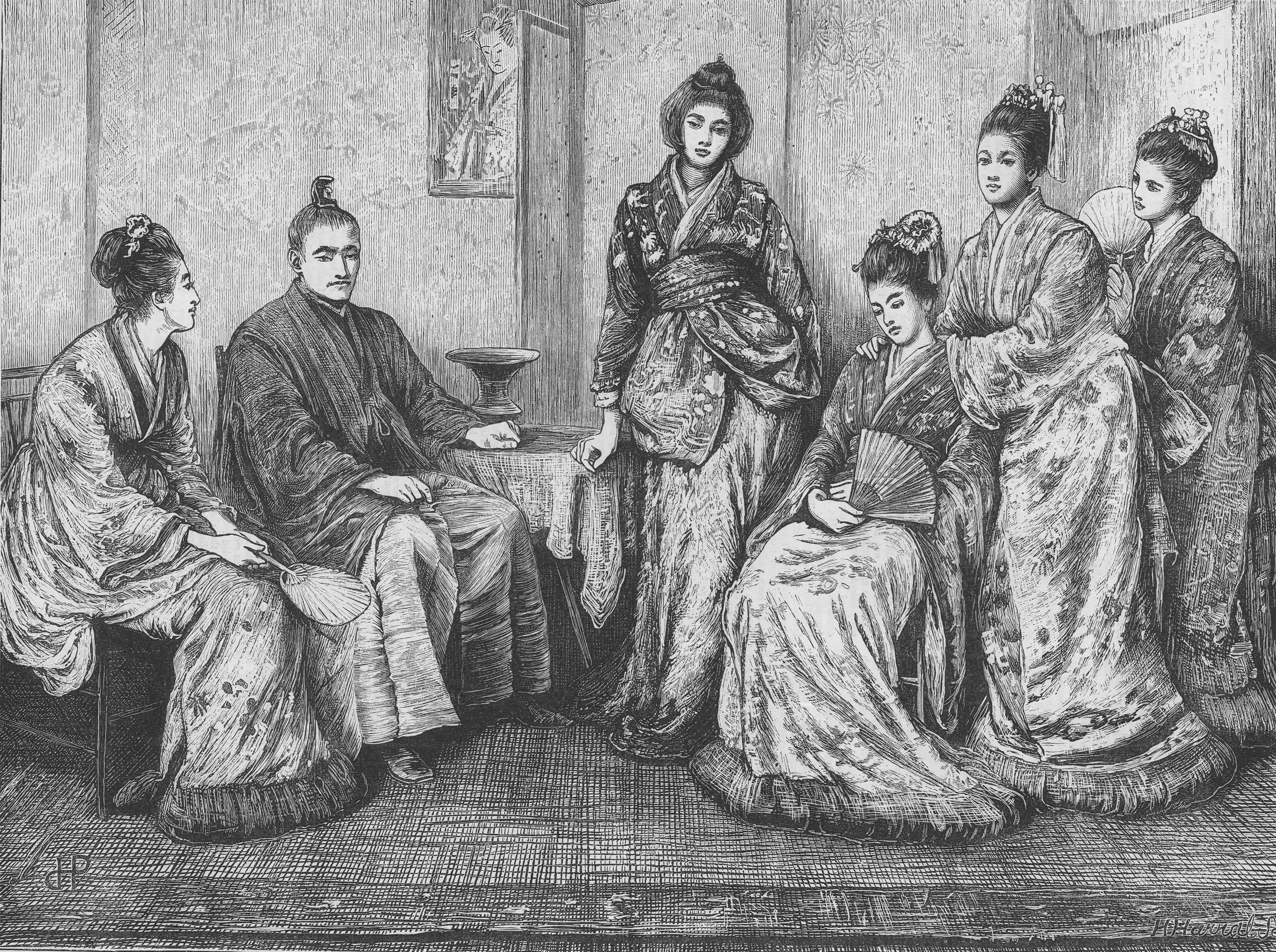 Prince Iwakura with girls of the mission